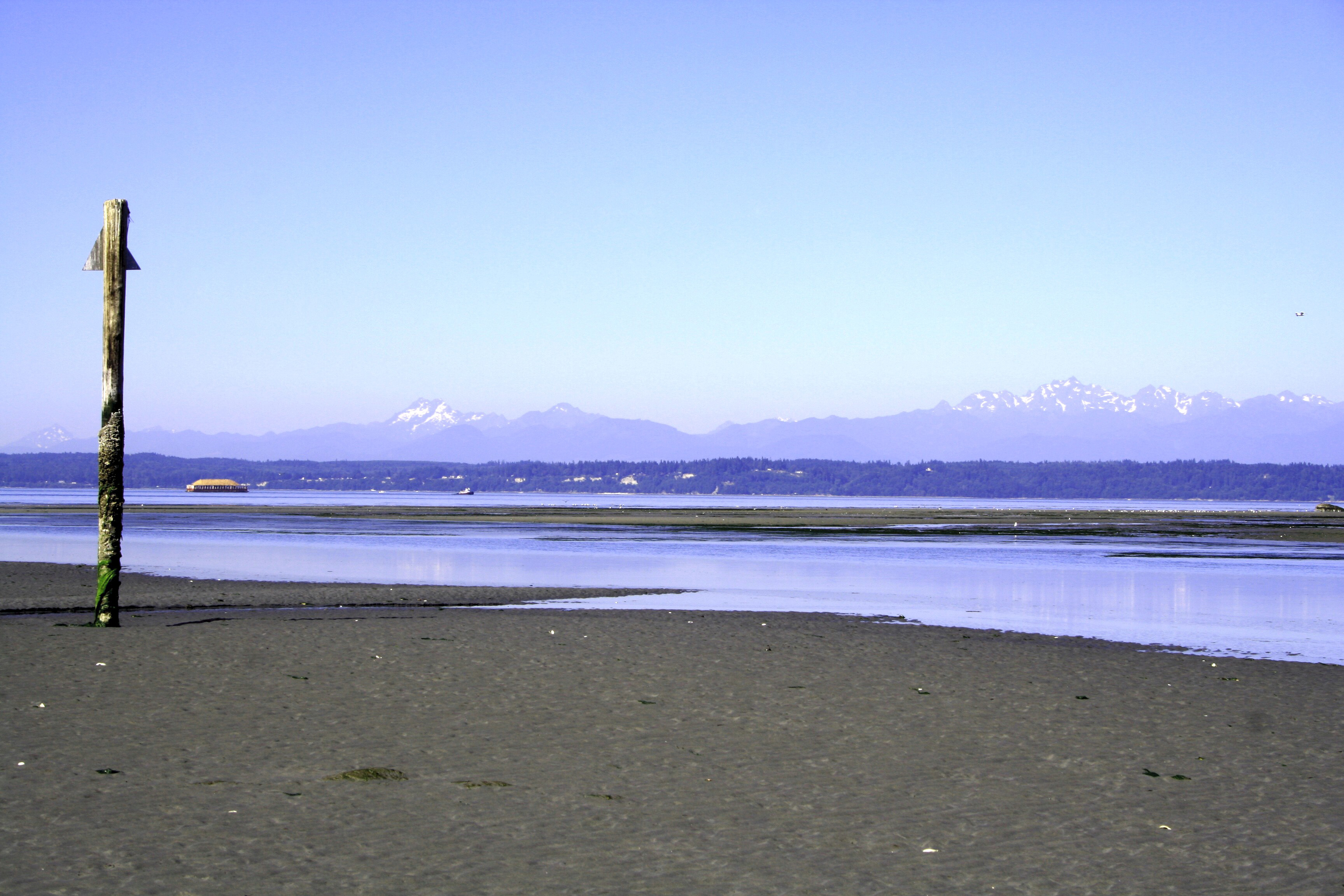 Cultus Bay on Whidbey Island at low tide.